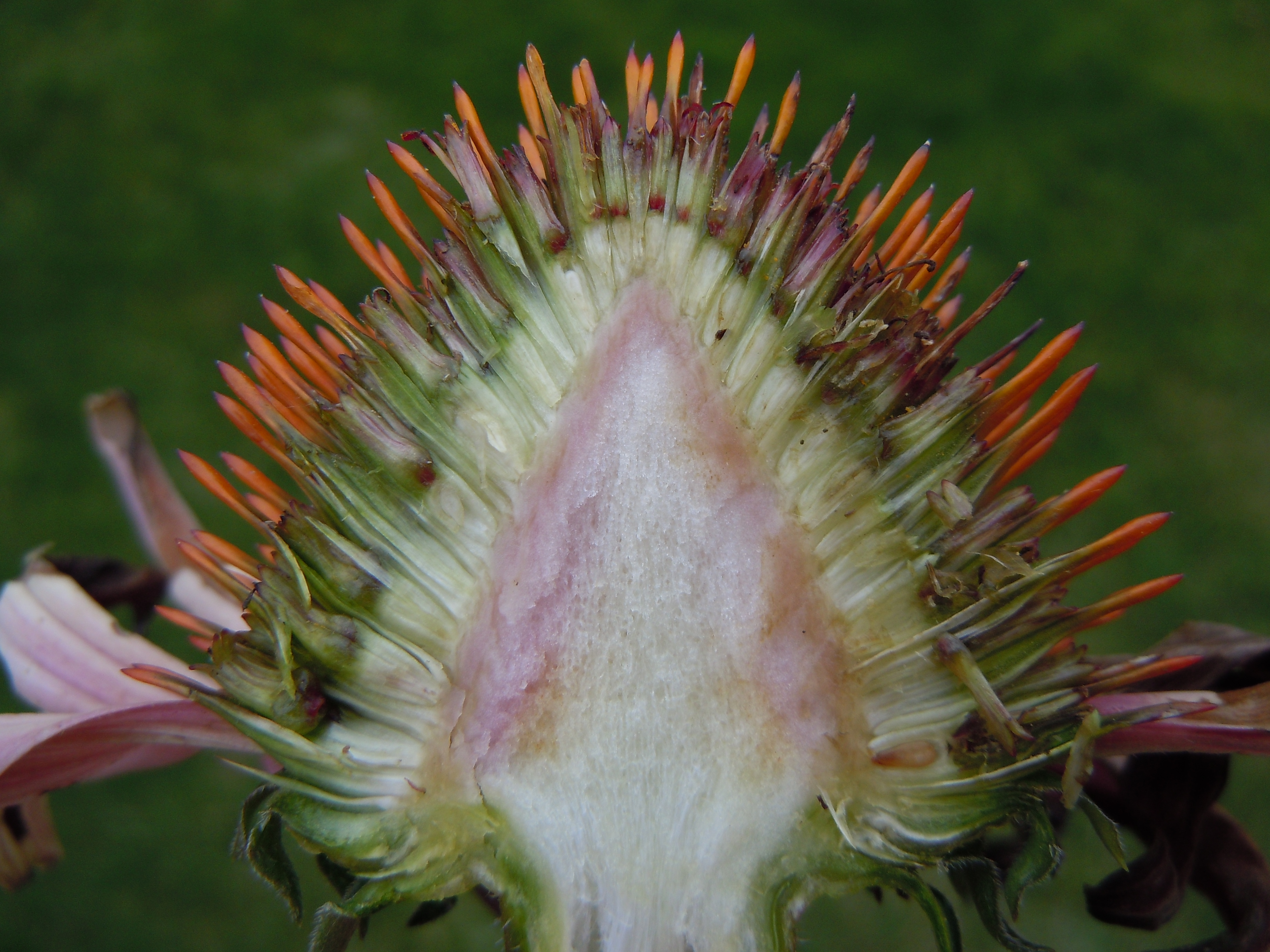 Chaffy bracts subtend each of the disk flowers.